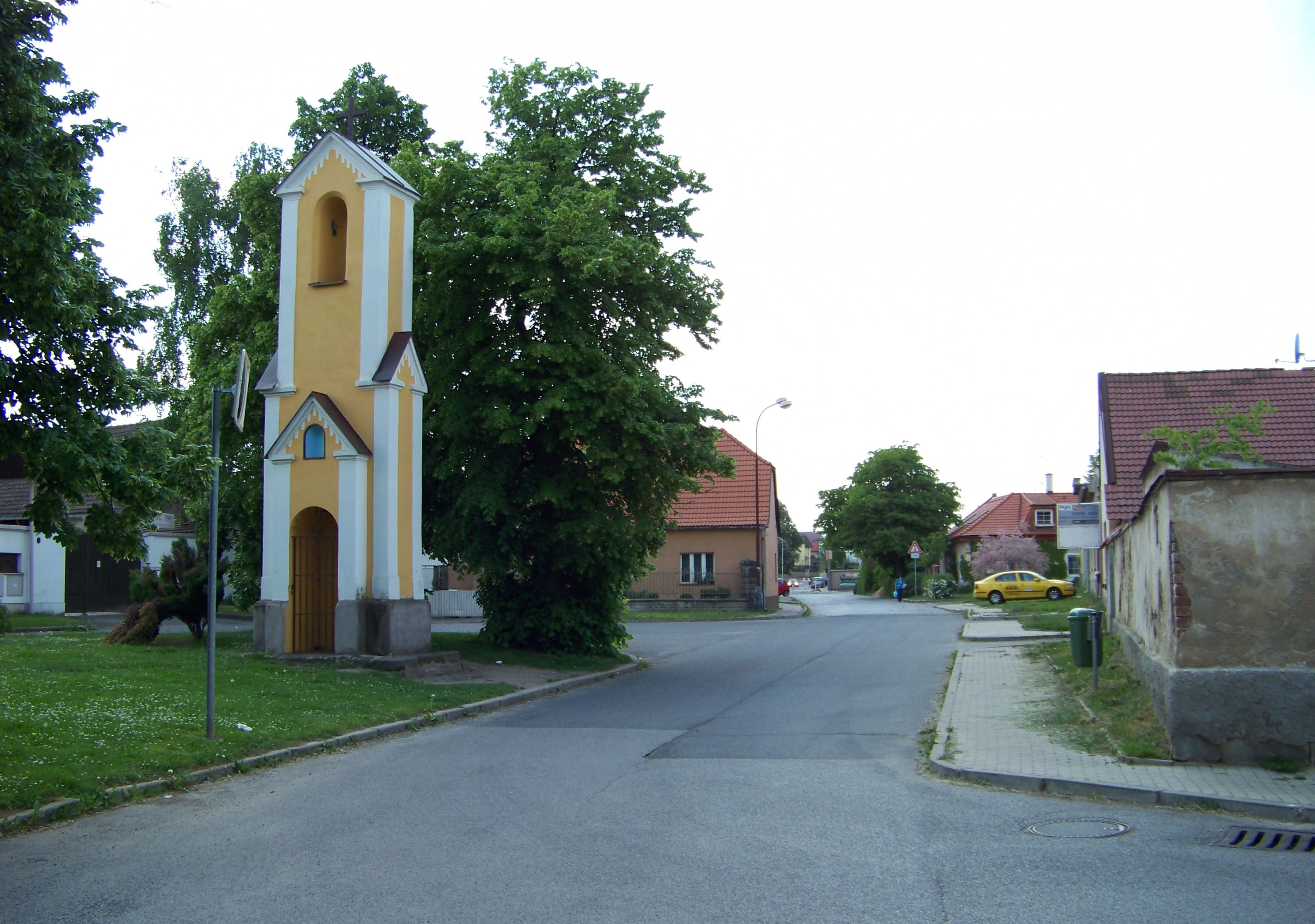 Šestajovice, Prague-East District, Central Bohemian Region, the Czech Republic. 9. května street, a chapel.